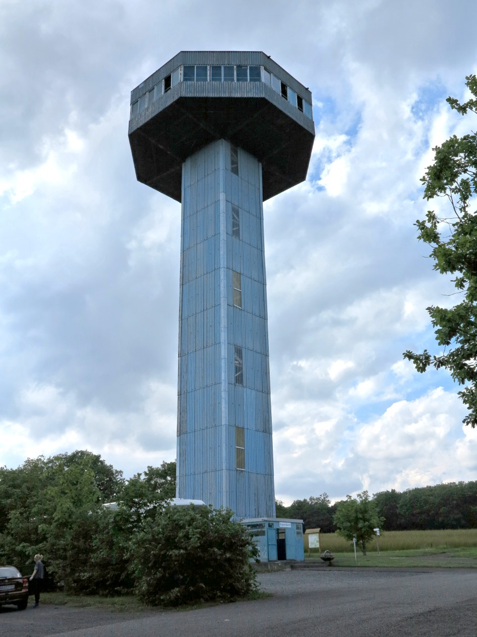 Tower "Bayerntuem at the Village "Zimmerau"